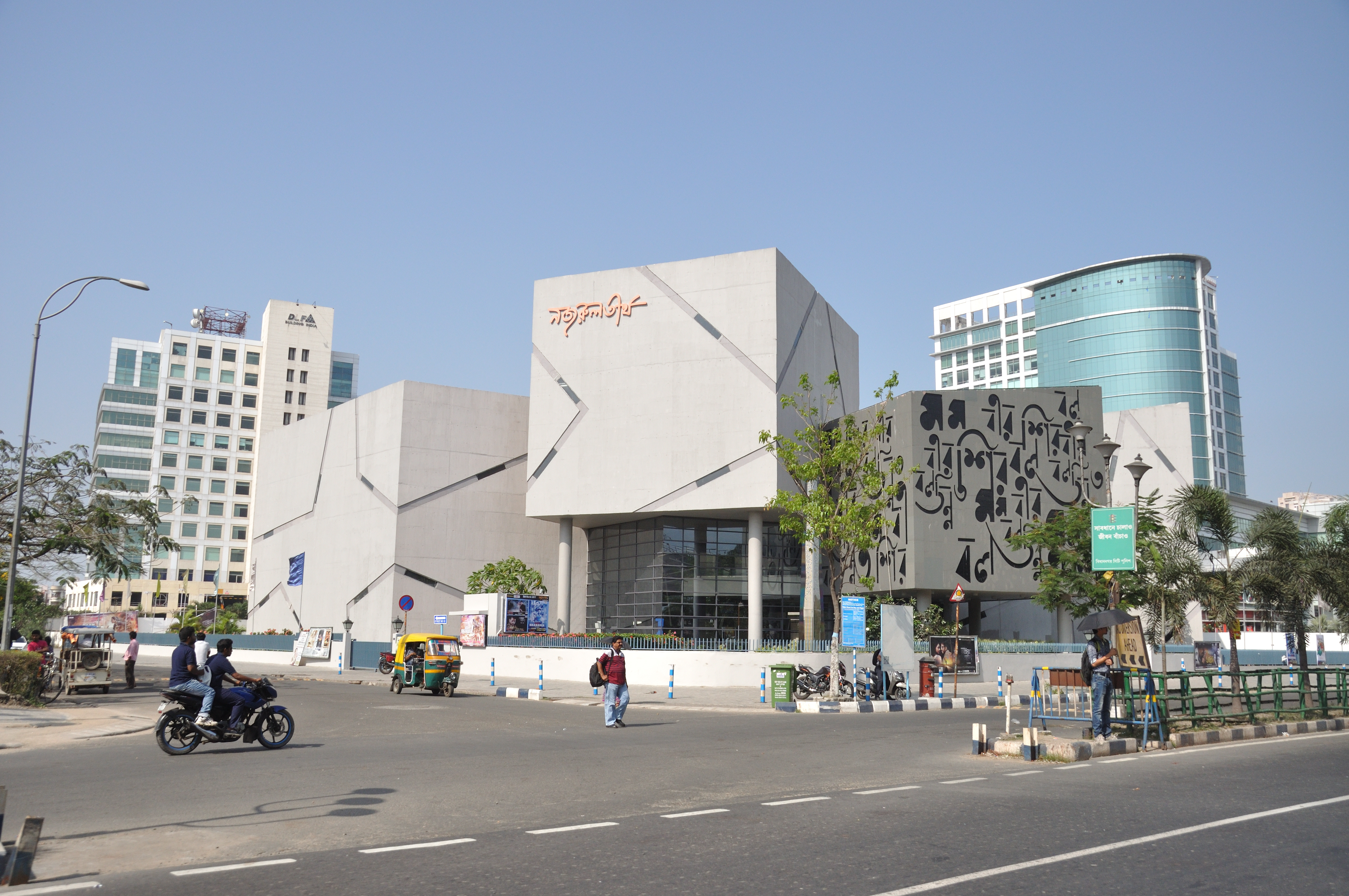 This photograph was taken in North 24 Parganas, West Bengal.